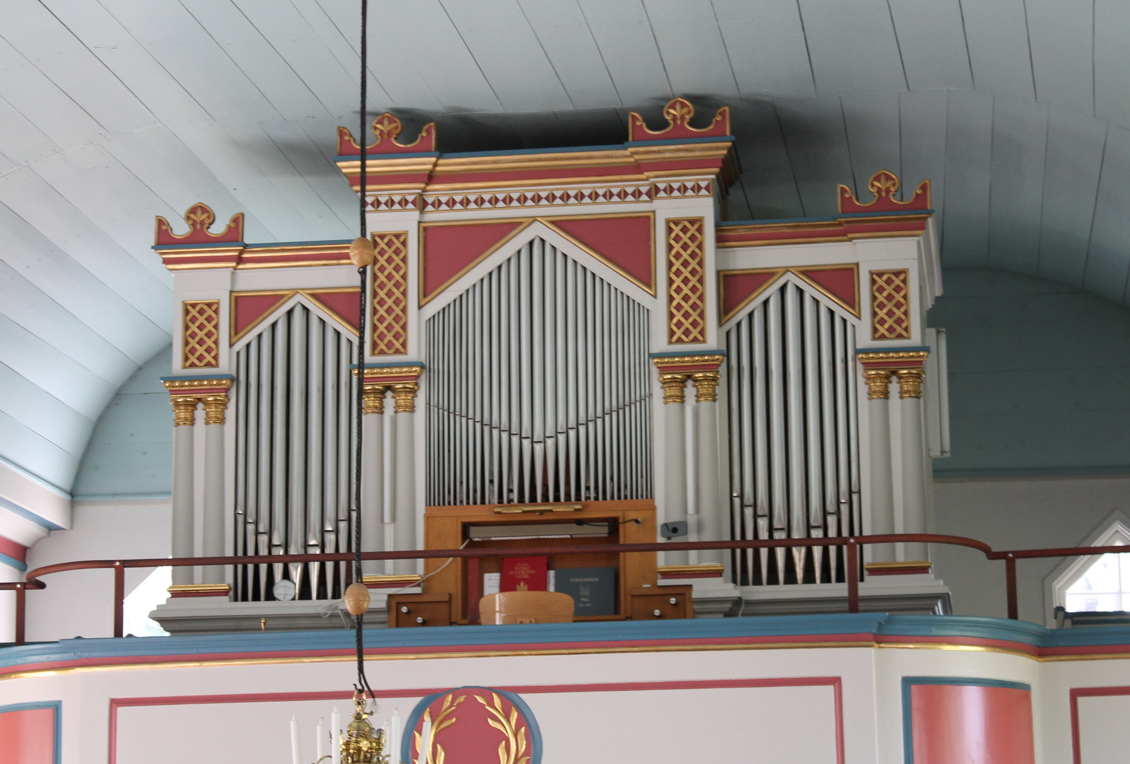 Mistelås Church.Organ